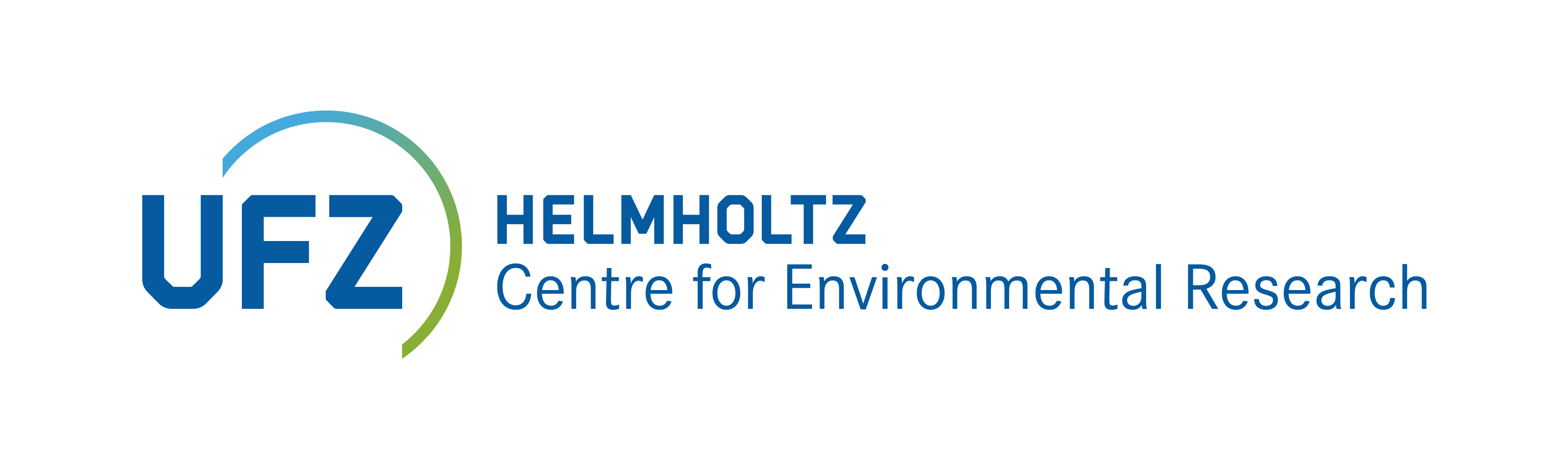 New logo UFZ